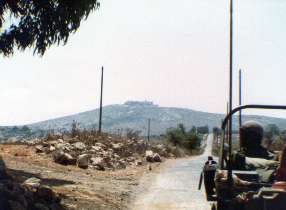 נסיעה דרומה לכיוון הבופור , התמונה צולמה על ידי סמי מועלם אוגוסט 1982